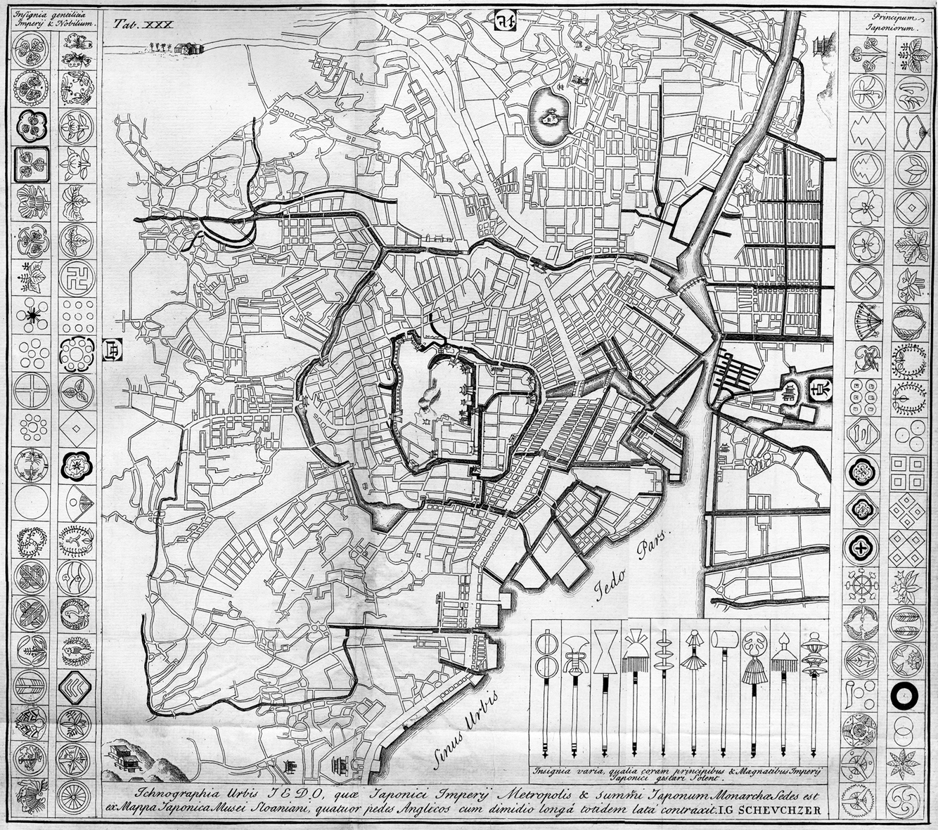 First Map of Edo (Tokyo) published in Europe. Made by Johann Caspar Scheuchzer (1702-1729) using a Japanese woodblock-print map by Ishikawa Ryusen.